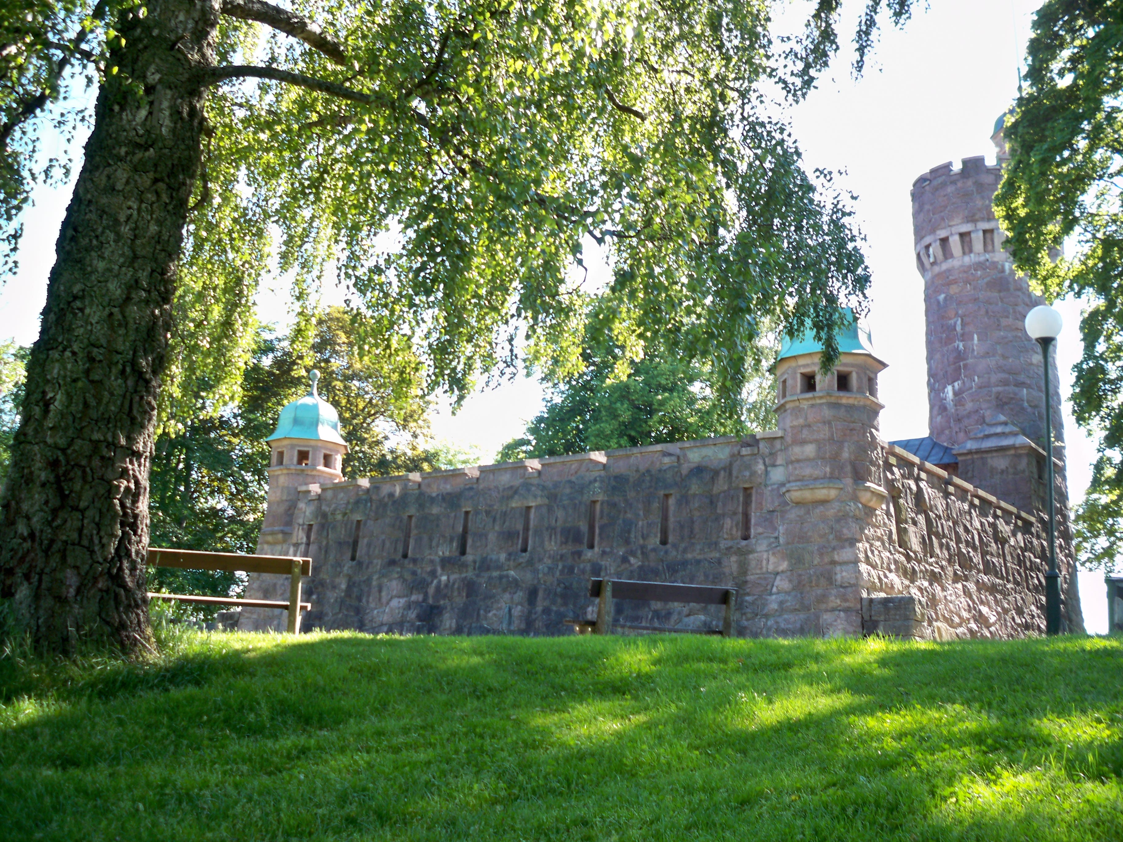 The 1900 Water Tower made of natural stone in Mill Hill Park of Borås, Sweden.